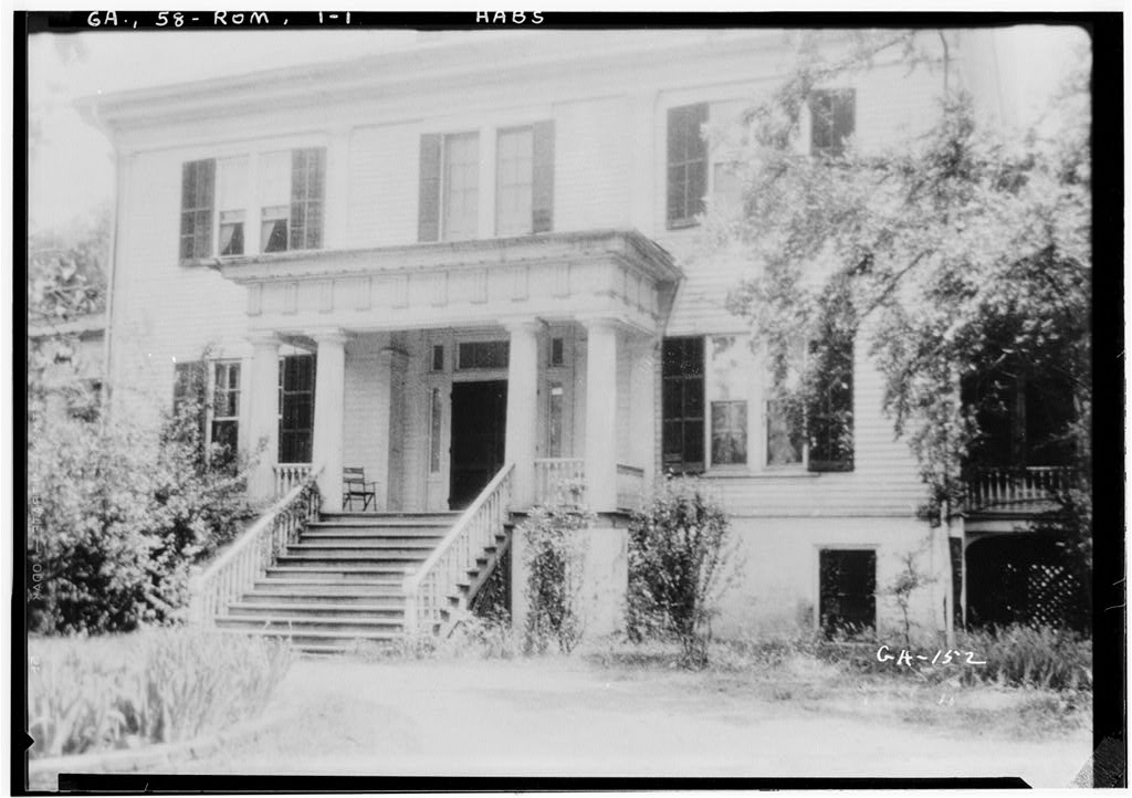 Image shows the historic "Thornwood" house in Rome, Georgia. Begun 1849, completed 1854 by Alfred Shorter. This house was occupied by Union Troops during the Civil War and is now part of Shorter College Campus.